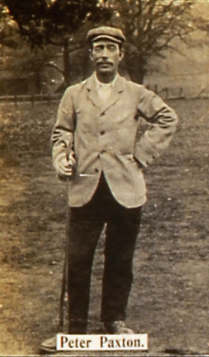 A circa 1892 photograph of Scottish golfer and clubmaker Peter Paxton.